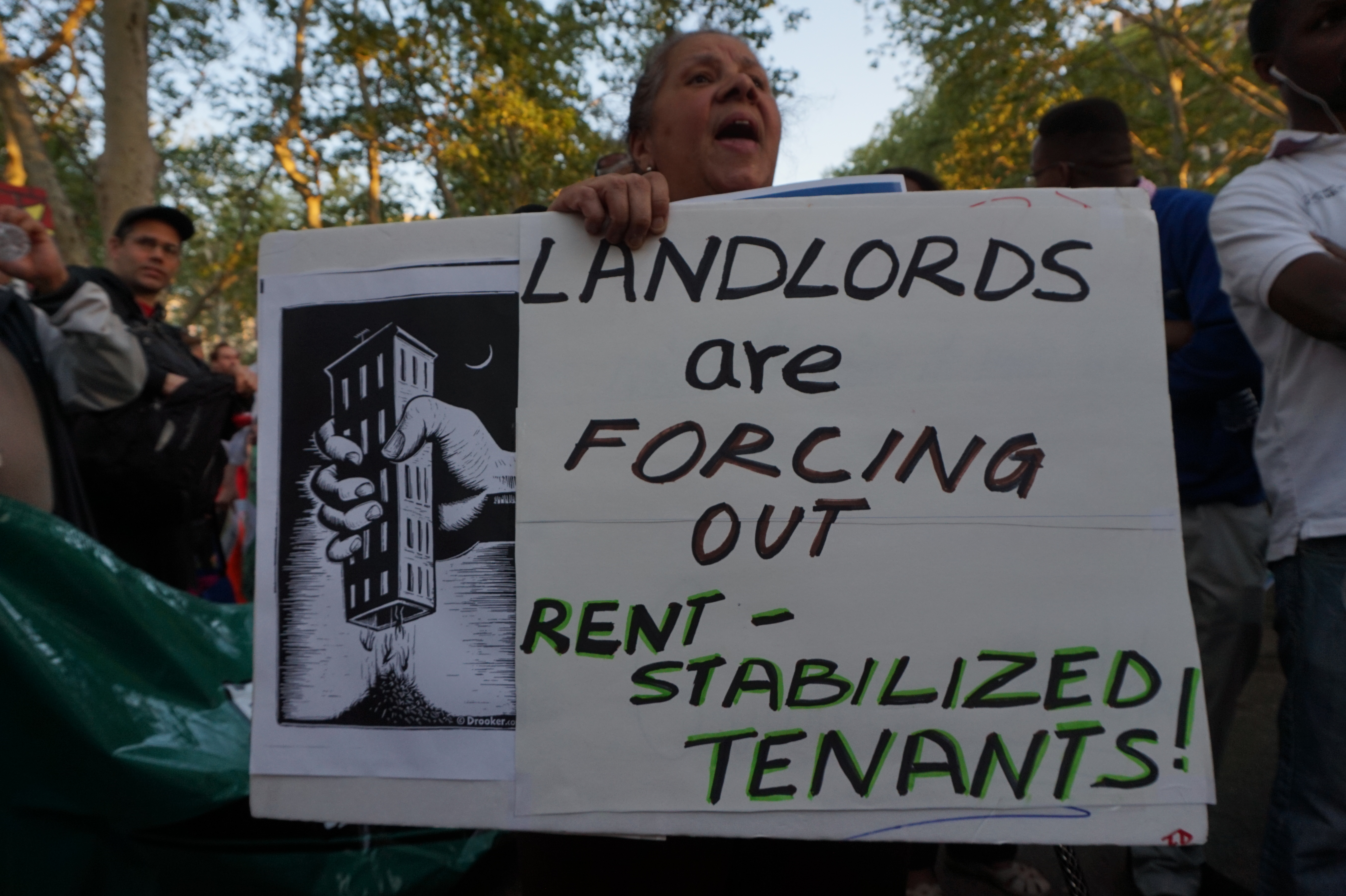 Rally and March in favour of stronger tenant laws, an repeal of laws favouring landlords and developers.